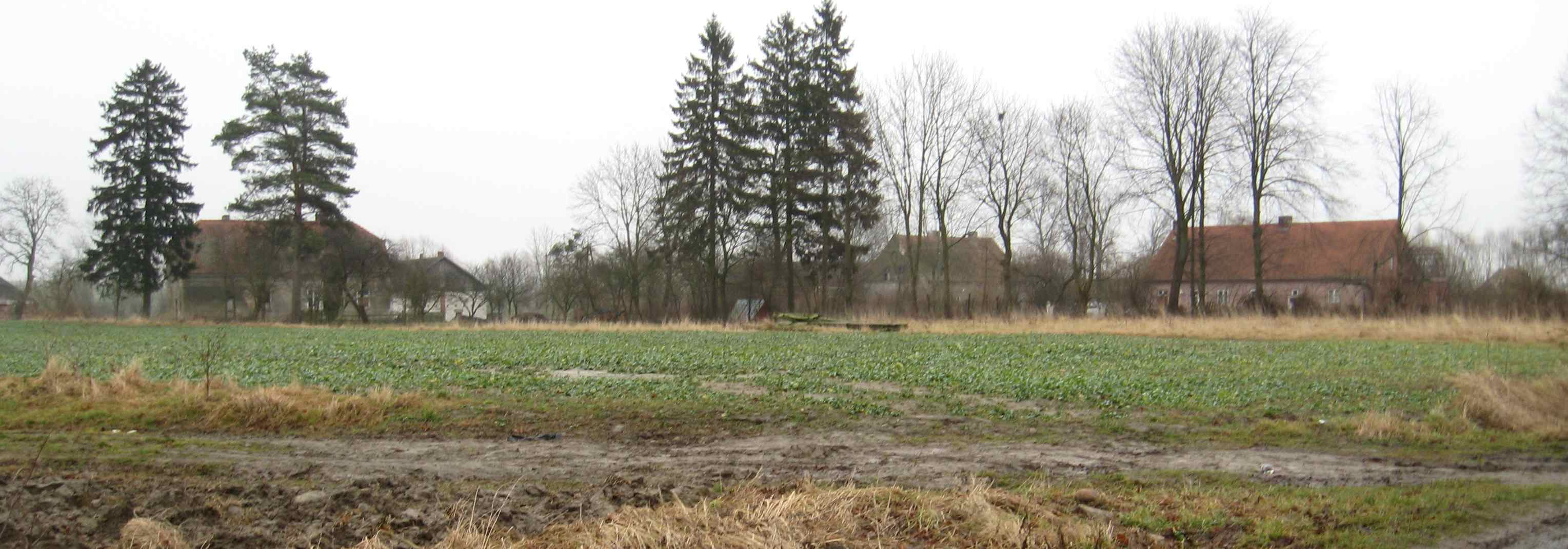 The village Kąpławki in Poland - OpenStreetMap (Info)